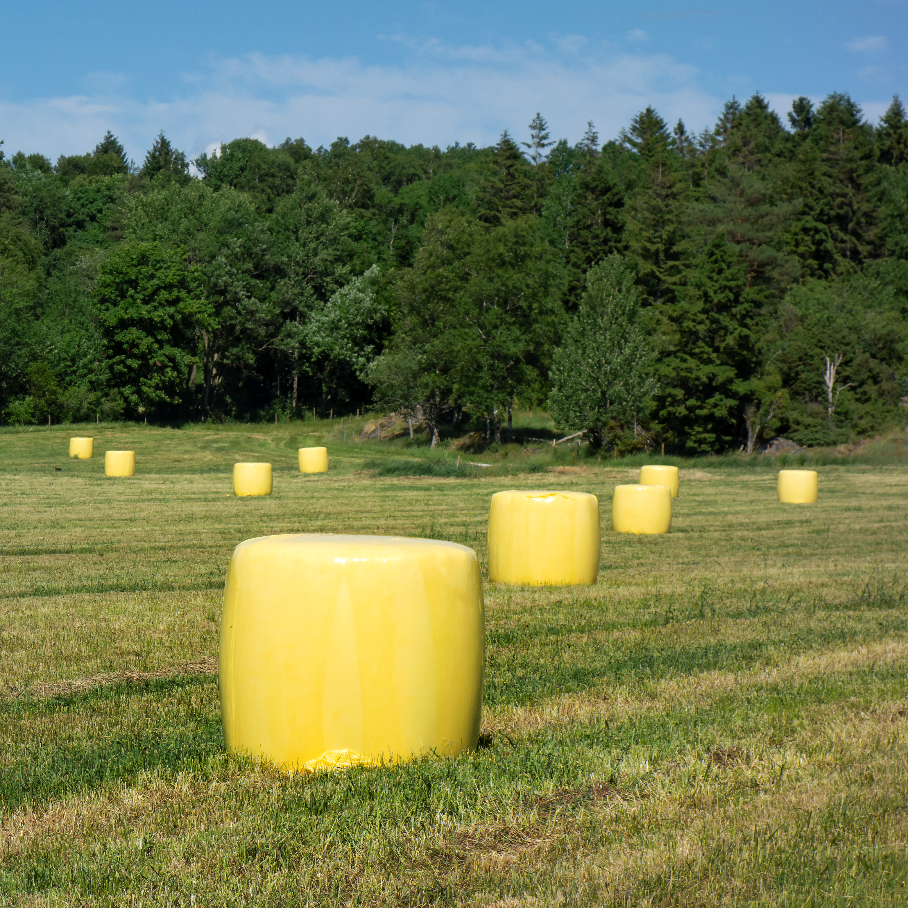 Yellow silage bales in Heden, Brastad, Lysekil Municipality, Sweden. The yellow silage wrapping is sold in support childhood cancer awareness. Part of the proceeds from the sale of these colored wrappings goes to cancer research.